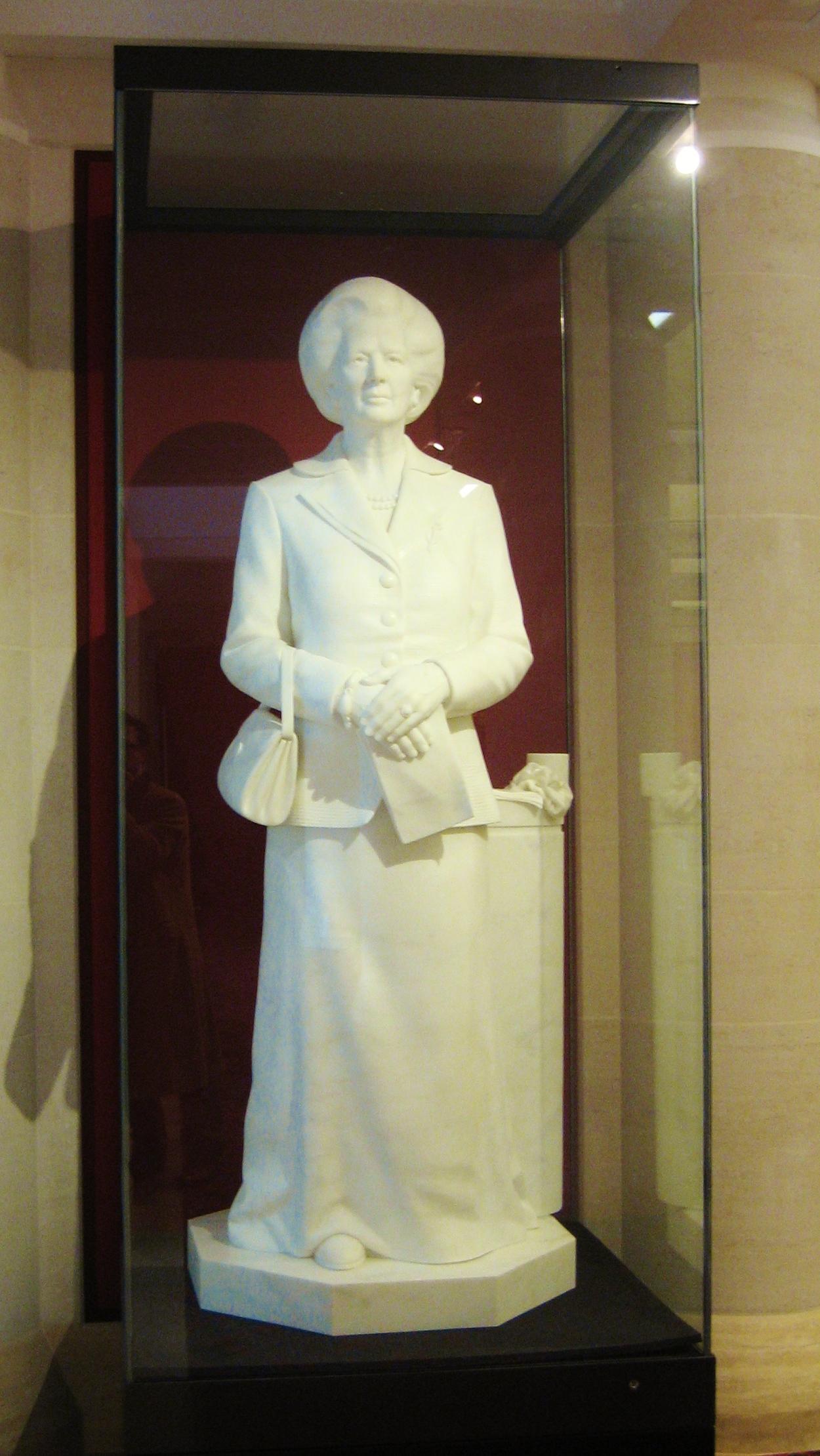 In 1998, the Commons Speaker's Advisory Committee on Works of Art (chaired by Tony Banks, who saw it as a matter of history) commissioned this marble statue for the lobby, to stand alongside Atlee et al. At that time, statues of living politicians weren't allowed in the Commons (a rule relaxed by Blair), so it bided its time in the Guildhall Gallery, waiting for its subject to croak. These days, you get searched going into the Guildhall Gallery. But in the summer of 2002 you could easily enter with a Slazenger V600 cricket bat in your trousers, as long as you could do a good theatrical limp. Paul Kelleher, a theatre producer from Isleworth did just that, and hacked at the statue's neck with the bat, trying to smash its head off. The marble held fast, so he grabbed a metal rope support stanchion and gave her a successful Charles I haircut. The City authorities have glued the head back on to the body so that you can hardly see the join, but feelings run high again, so the statue is now housed in a metal-rope-support-stanchion-proof toughened-glass case.